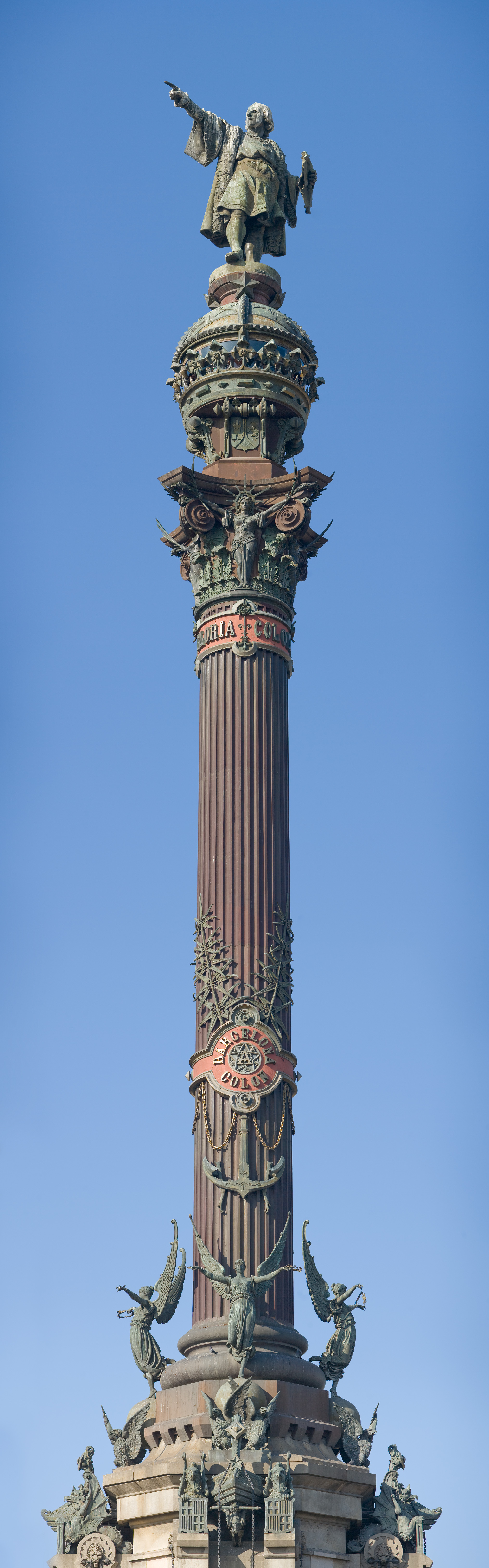 An 8 segment vertical panorama taken by myself with a Canon 5D and 70-200mm f/2.8L lens at 200mm.